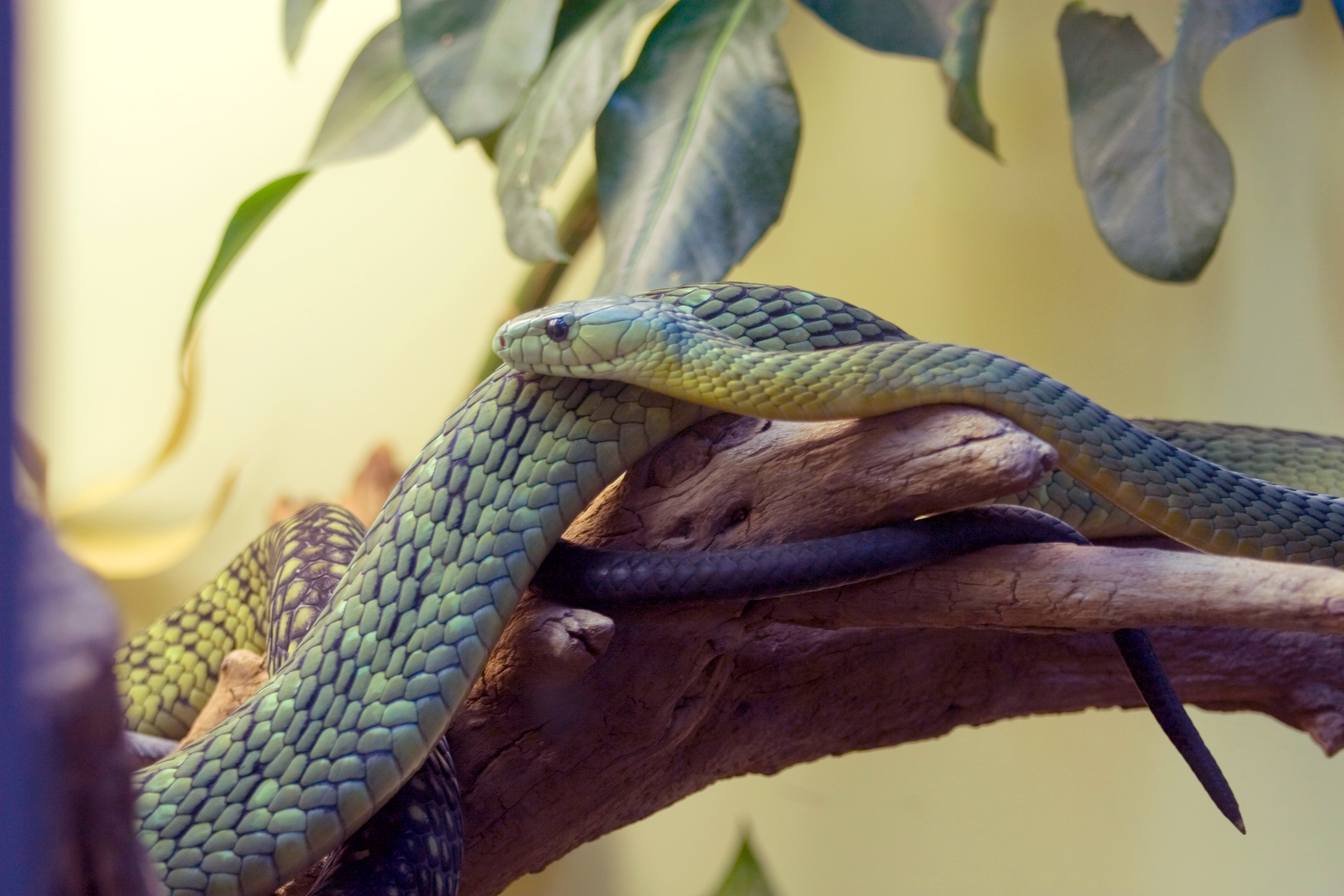 Jameson's Mamba at the Cincinnati Zoo.